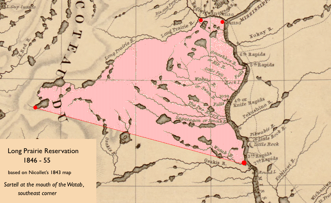 Map of the 1846-55 Winnebago (Ho-Chunk) Reservation in central Minnesota based on landmarks in 1847 US Treaty with the Chippewa, using Joseph Nicolas Nicollet's 1843 map